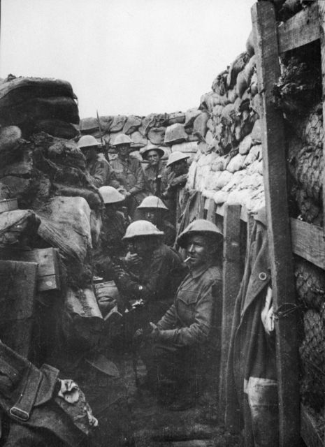 Soldiers of the 53rd Battalion, Australian 5th Division, waiting to attack during the Battle of Fromelles, July 19, 1916. Only three of the men shown survived the attack and those three were wounded.